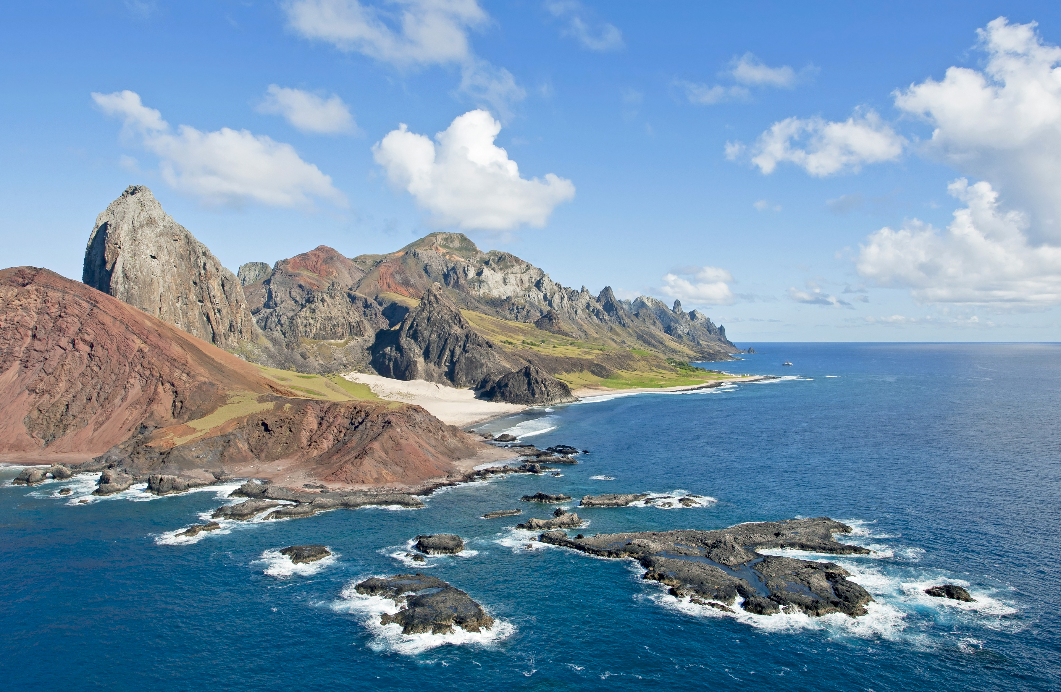 Trindade is a volcanic island off the coast of the Brazilian state of Espirito Santo. It constitutes an archipelago with Martim Vaz. The distance to the nearest coast of mainland Brazil is 1167 km, and the surface area is 9.2 km2. It is part of the municipality of Vitória.